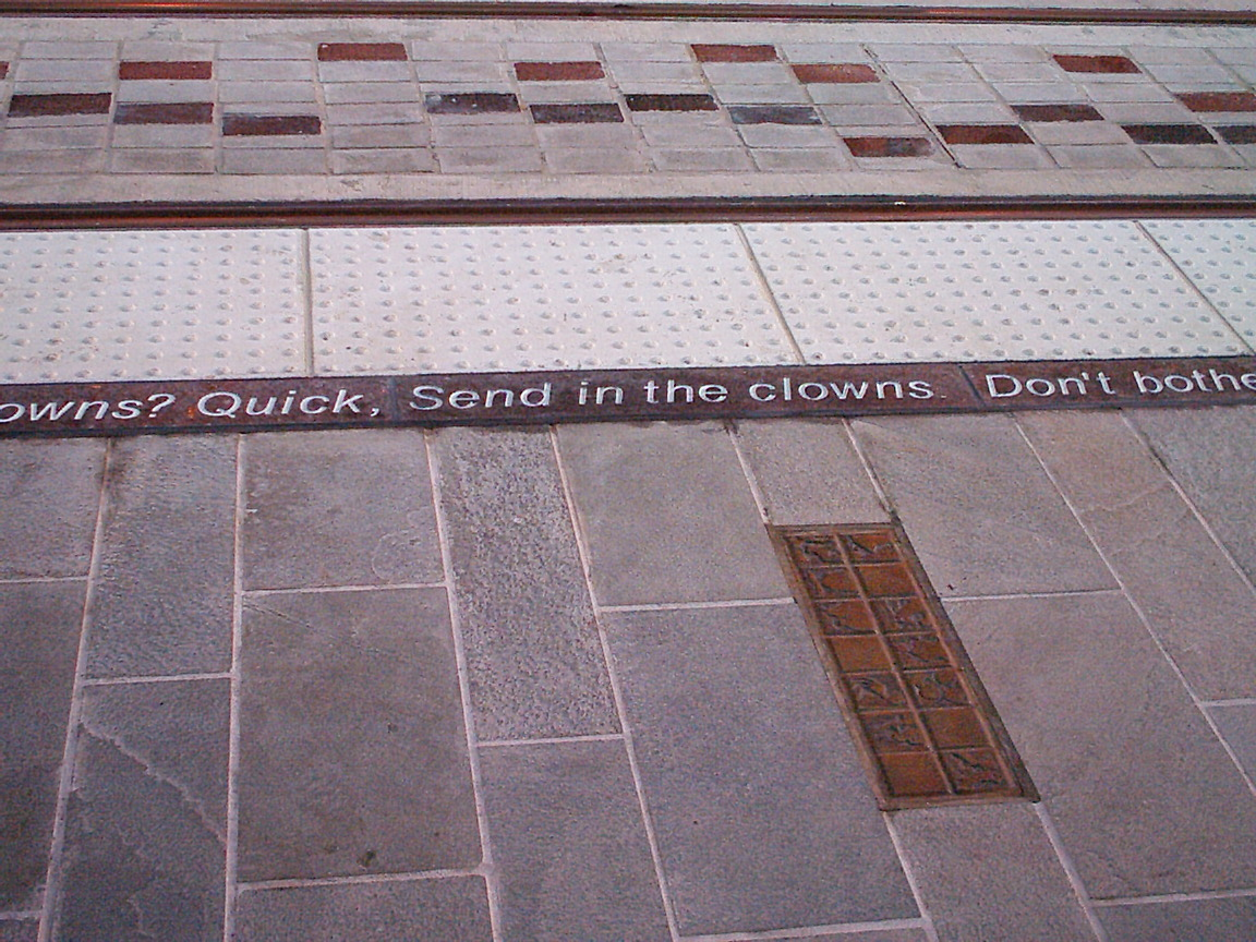 Part of the lyrics to Send in the Clowns set into the platform at Newark Broad Street Station. Taken by Temlakos